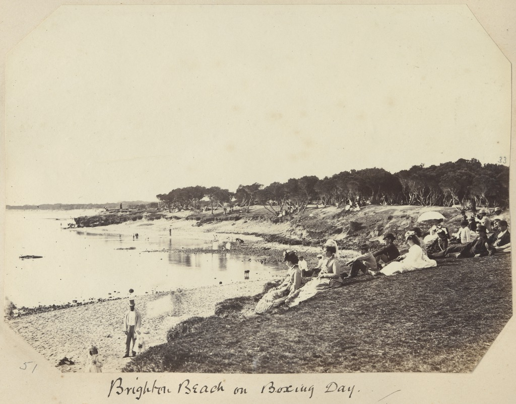 Title devised by cataloguer based on information from caption.; Condition: Glued to mount; slight foxing.; Also available in an electronic version via the Internet at: .au/nla.pic-an10608594-53. Persistent URL .au/nla.pic-an10608594-53